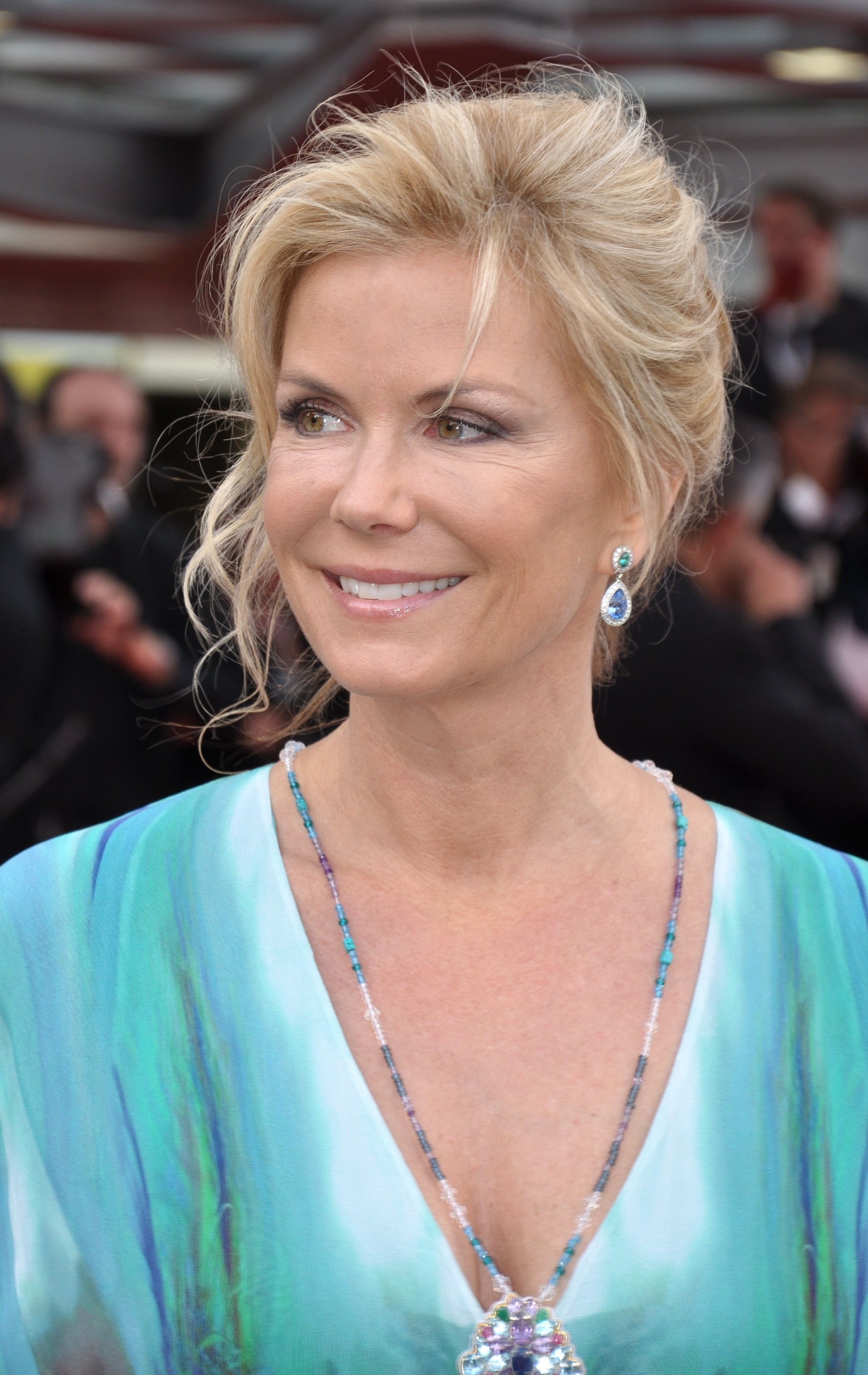 Katherine Kelly Lang at the 2013 Monte-Carlo Television Festival.